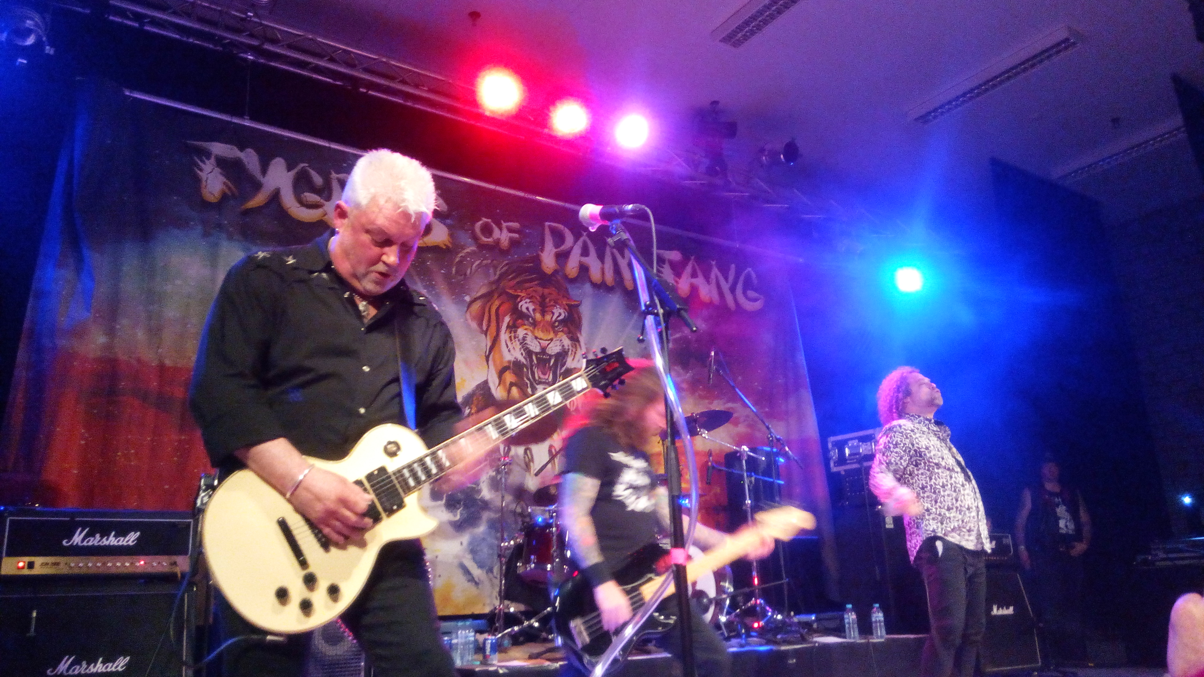 Tygers of Pan Tang, Vorselaar Belgium, May 2018